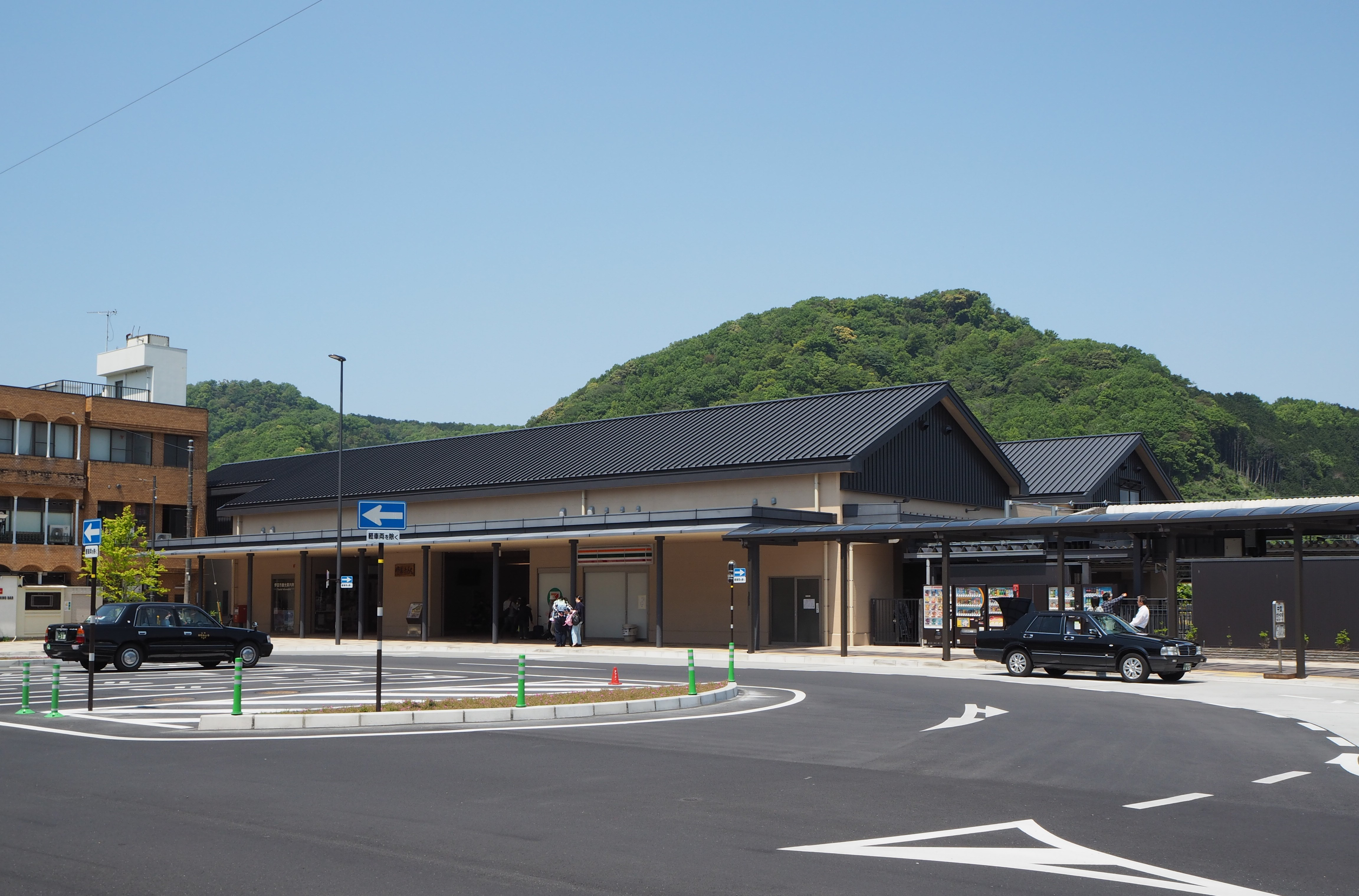 South Entrance of Shuzenji Station